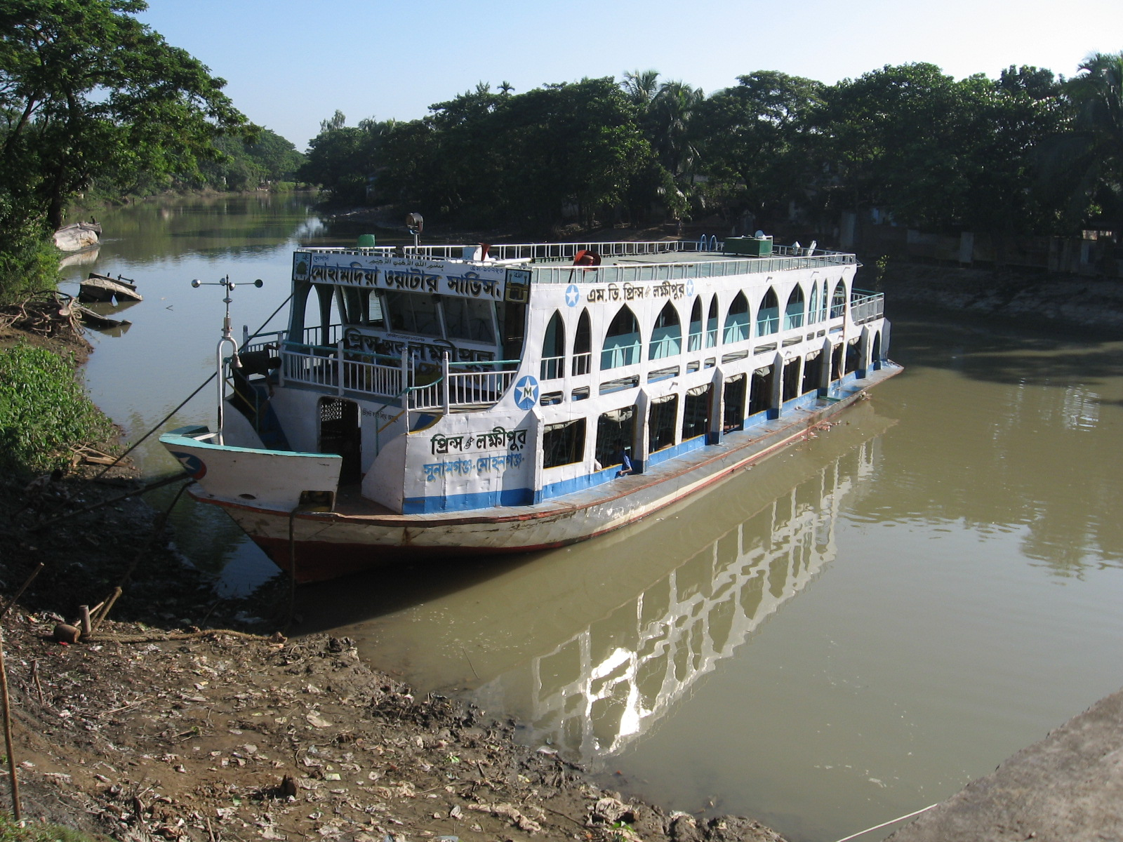 A launch at Mohanganj in Netrakona district near the haor region